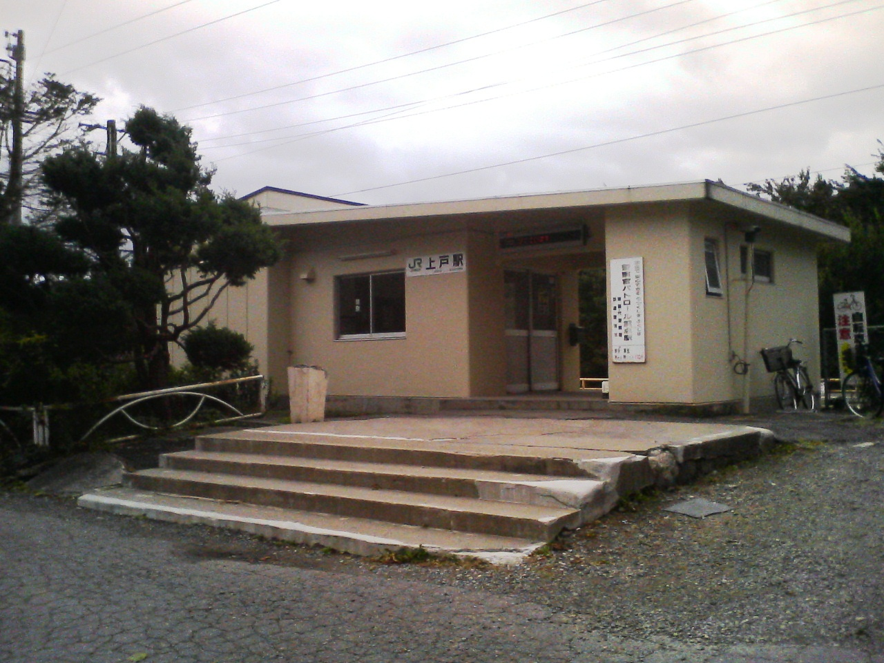 Jōko Station, Inawashiro, Fukushima, Japan